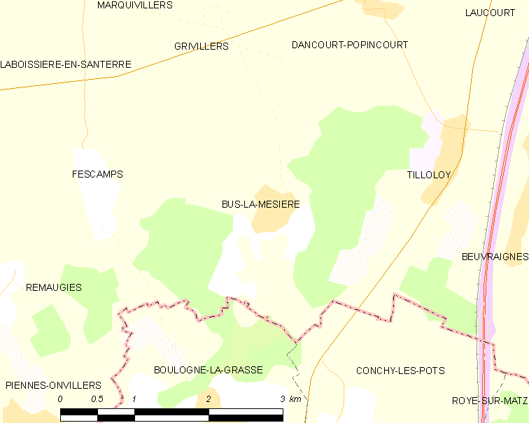 Map of French municipality Bus-la-Mésière